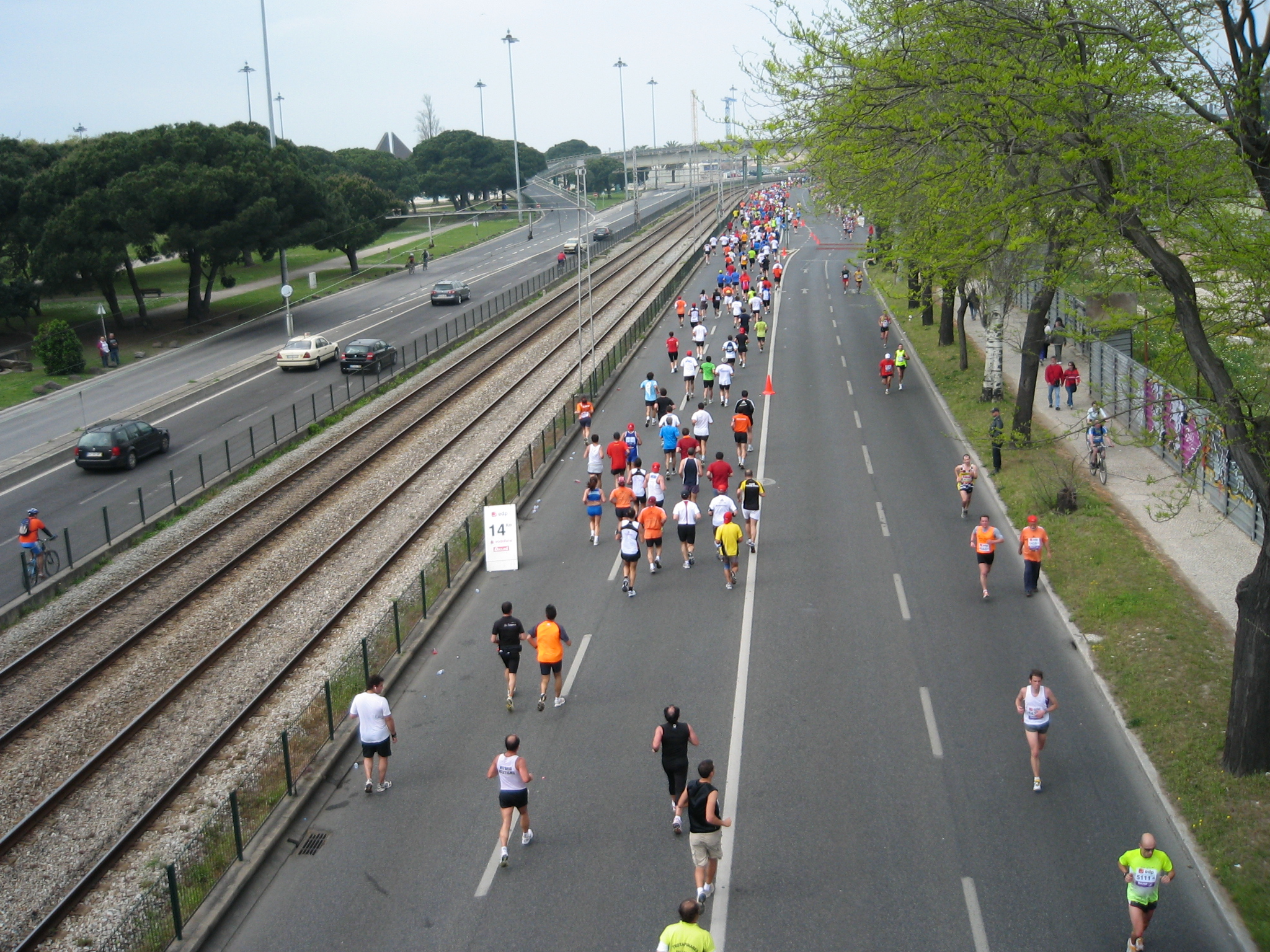 Lisbon 2009, CSEDU conference — Lisbon marathon